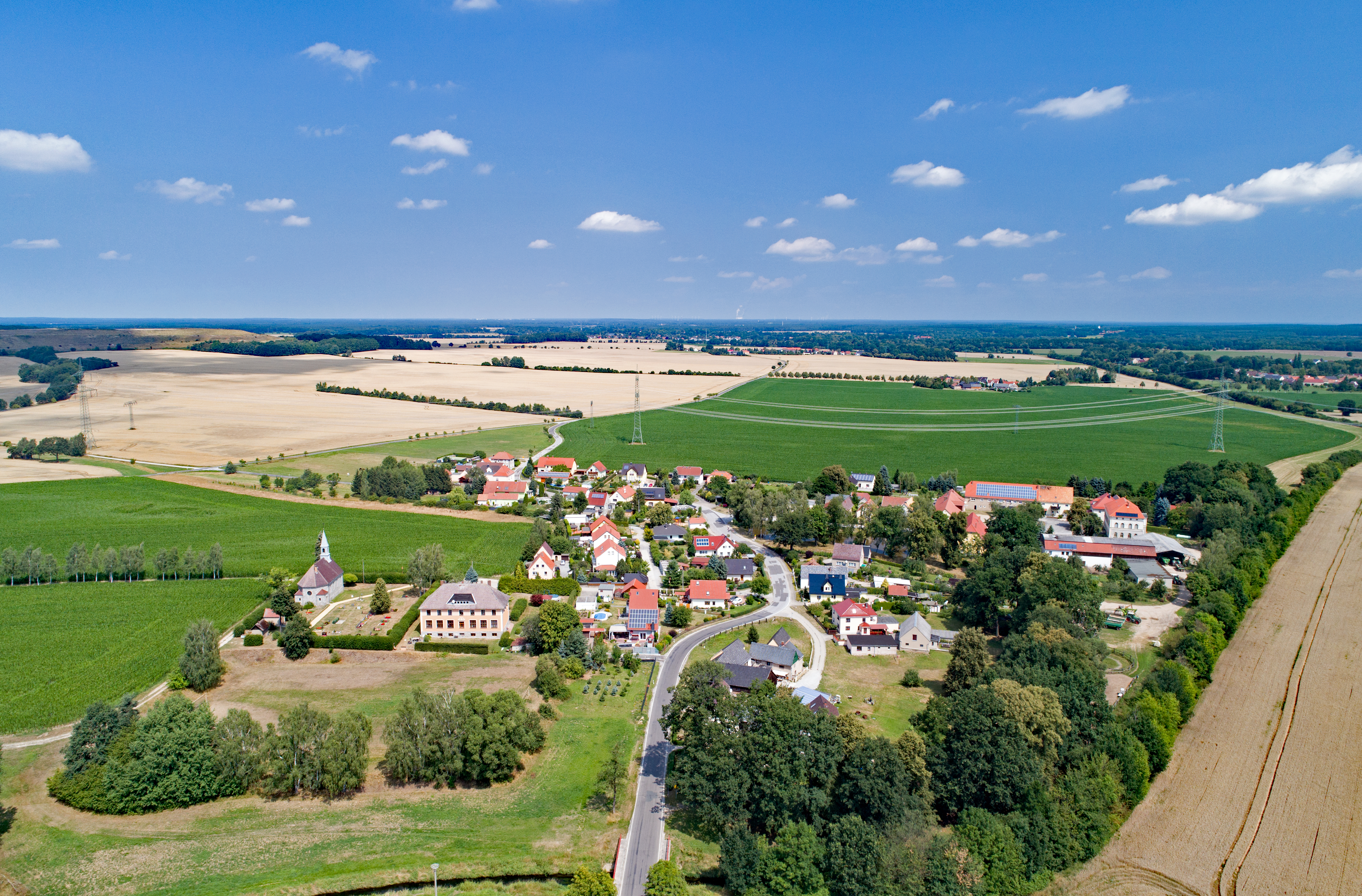 Saritsch (Neschwitz, Saxony, Germany) Hornjoserbsce: Powětrowy wobraz Zarěča